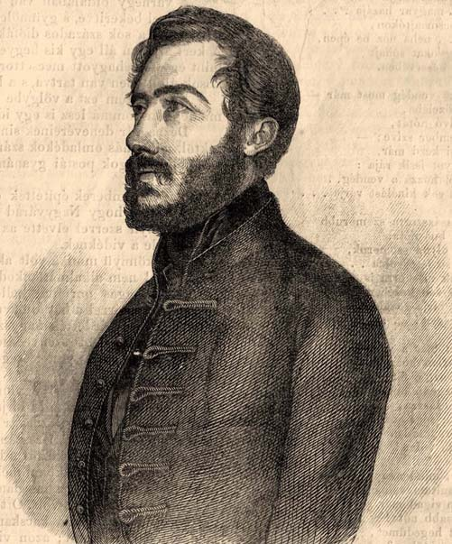 Portrait of Ede Zsedényi